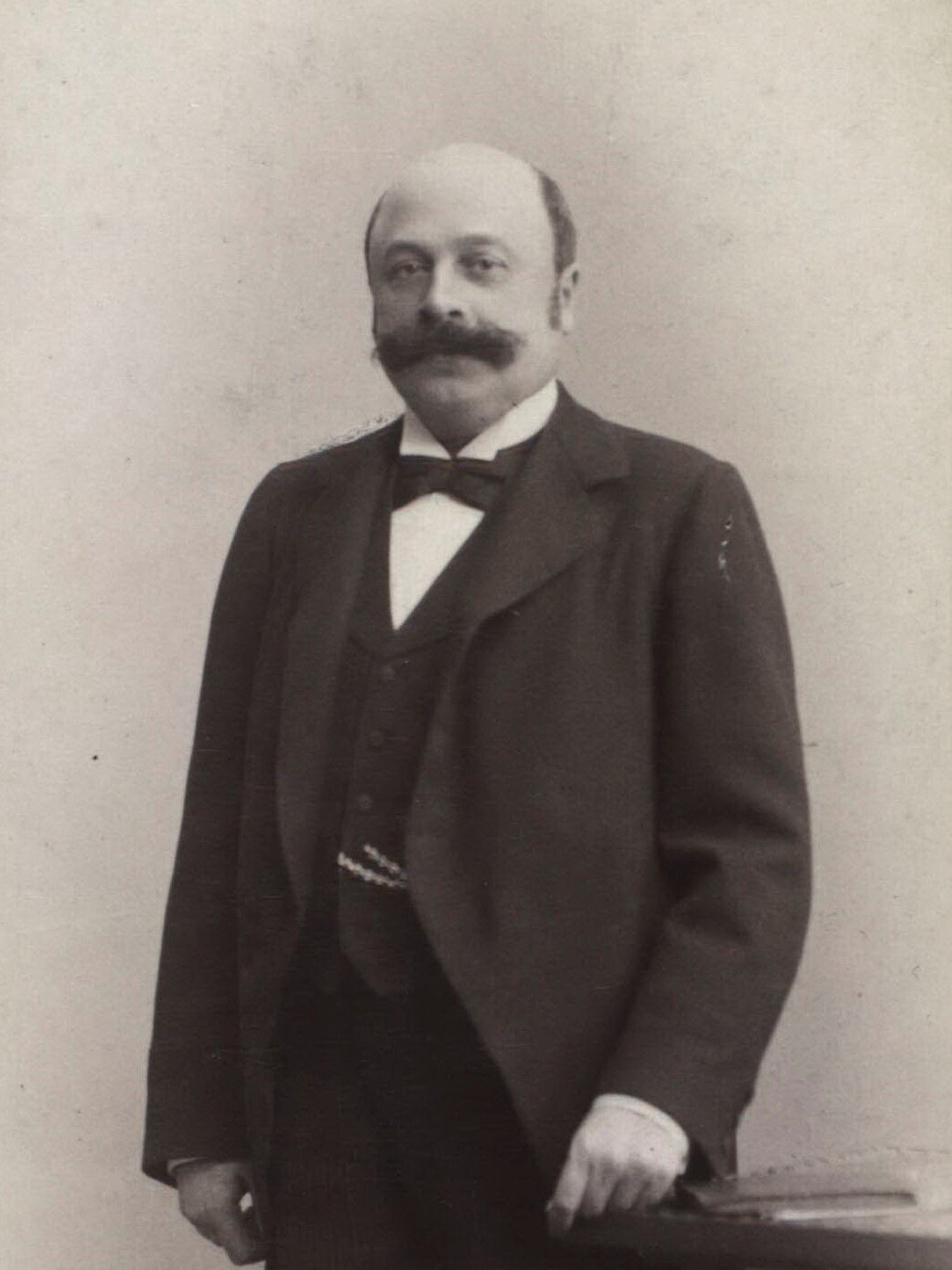 William Selly Haurowitz (1847-1908), Danish master brewer, CEO of the united breweries (Tuborg et al.)